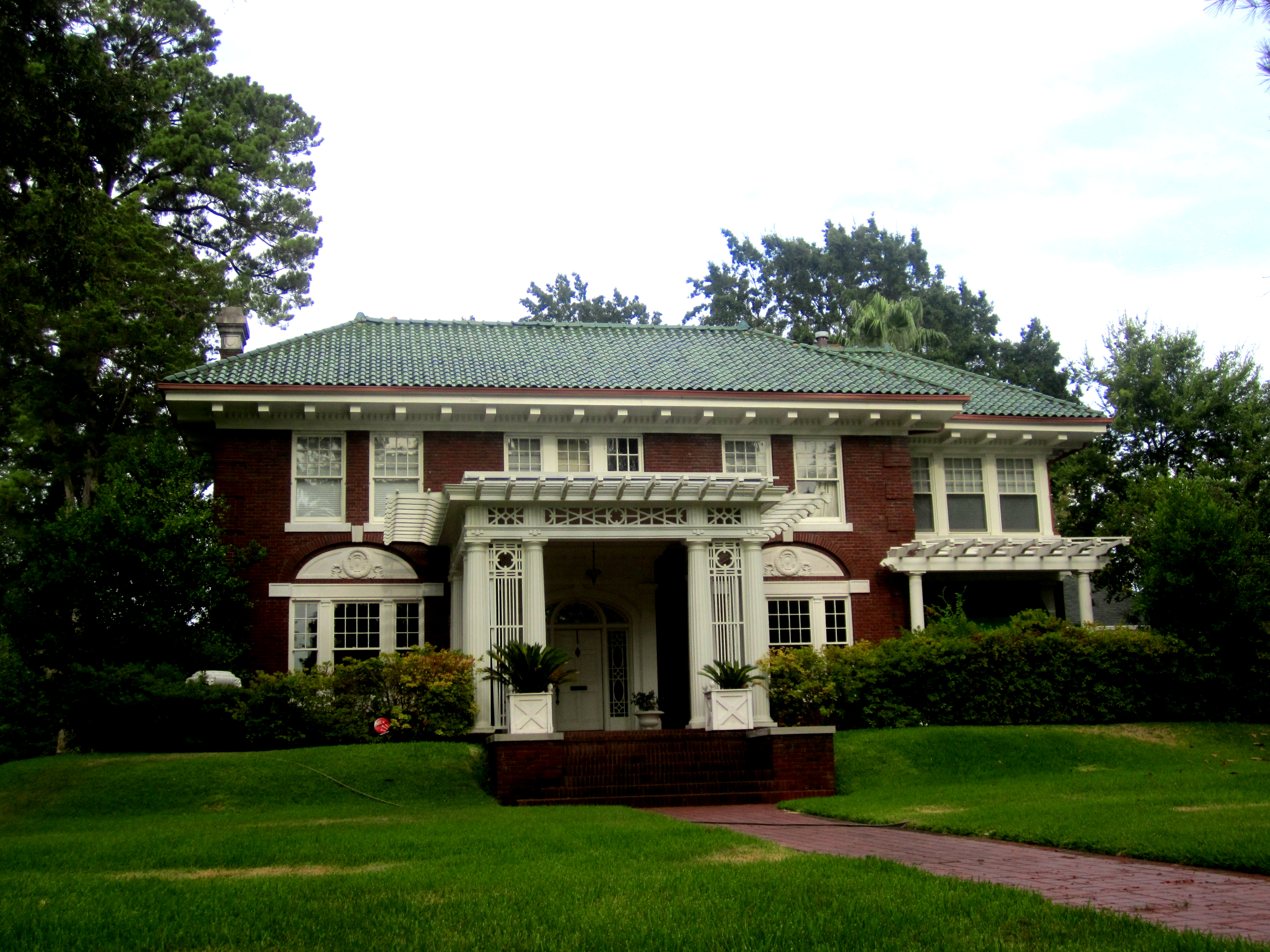 I took photo of Pine Wold house in Fairfield section of Shreveport, LA, using Canon camera.